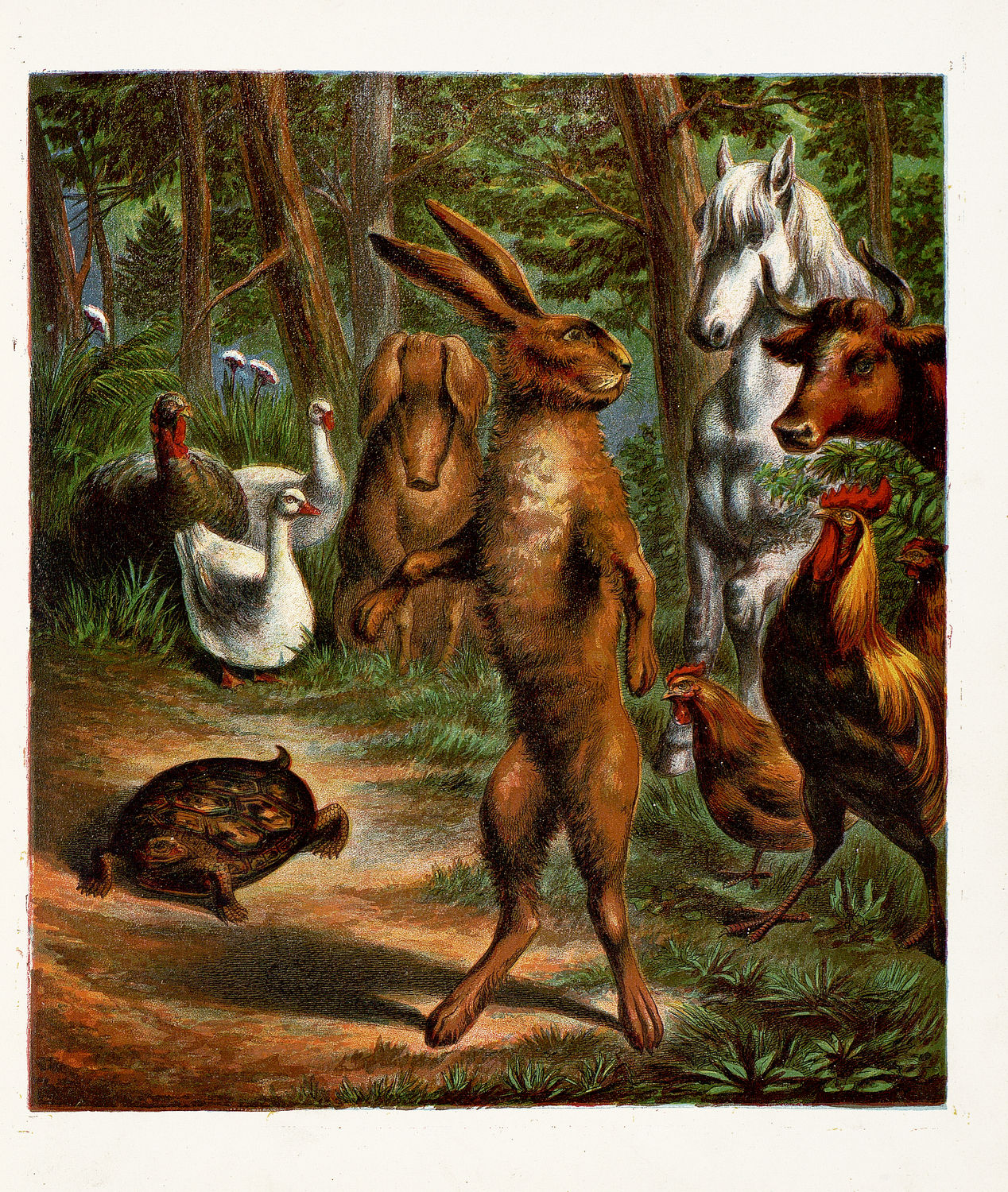 A scan of the book Aunt Louisa's Oft Told Tales.